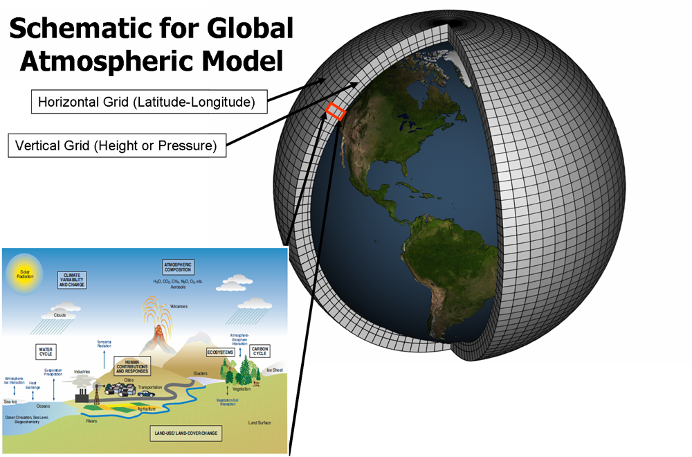 Climate models are systems of differential equations based on the basic laws of physics, fluid motion, and chemistry. To “run” a model, scientists divide the planet into a 3-dimensional grid, apply the basic equations, and evaluate the results. Atmospheric models calculate winds, heat transfer, radiation, relative humidity, and surface hydrology within each grid and evaluate interactions with neighboring points.